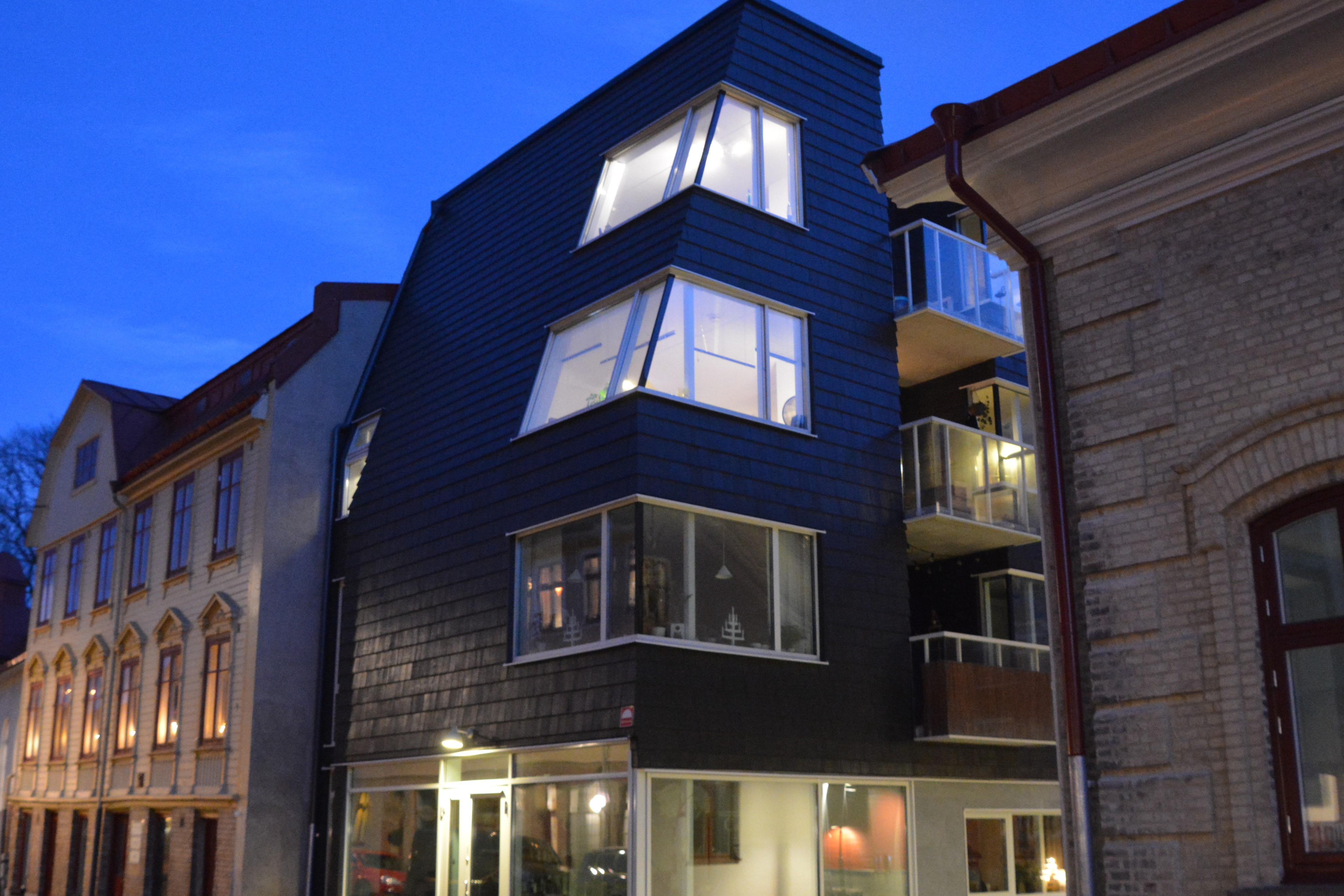 Ny och gammal bebyggelse, Allmänna vägen 18 i Majorna, Göteborg. Svarta huset, det nya huset, är ritat av Liljevalls Arkitekter, klart 2016